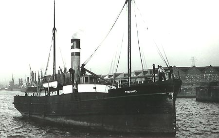 Photograph of SS Tyrconnel.